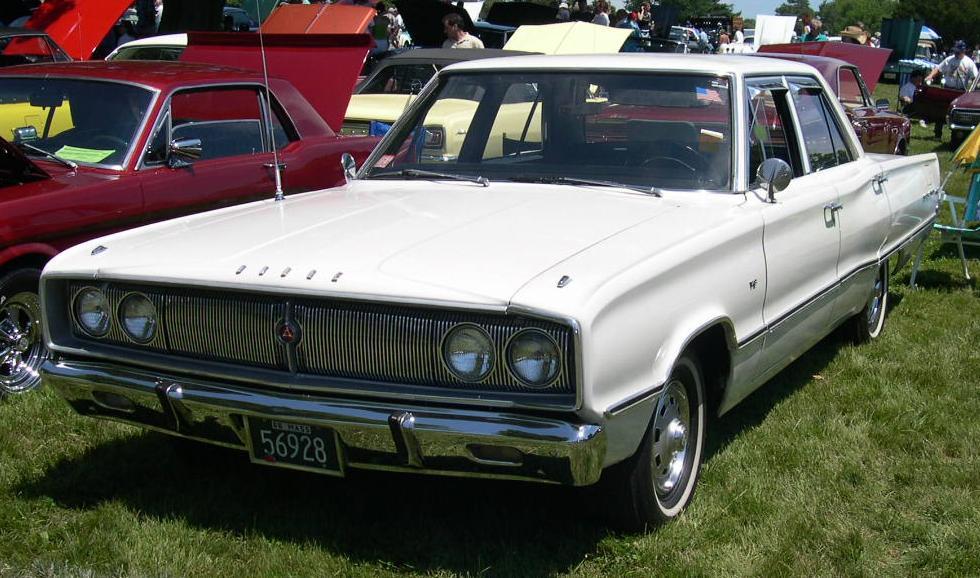 1967 Dodge Coronet Source: Photographed at the Bay State Antique Automobile Club's July 10, 2005 show at the Endicott Estate in Dedham, MA by User:Sfoskett